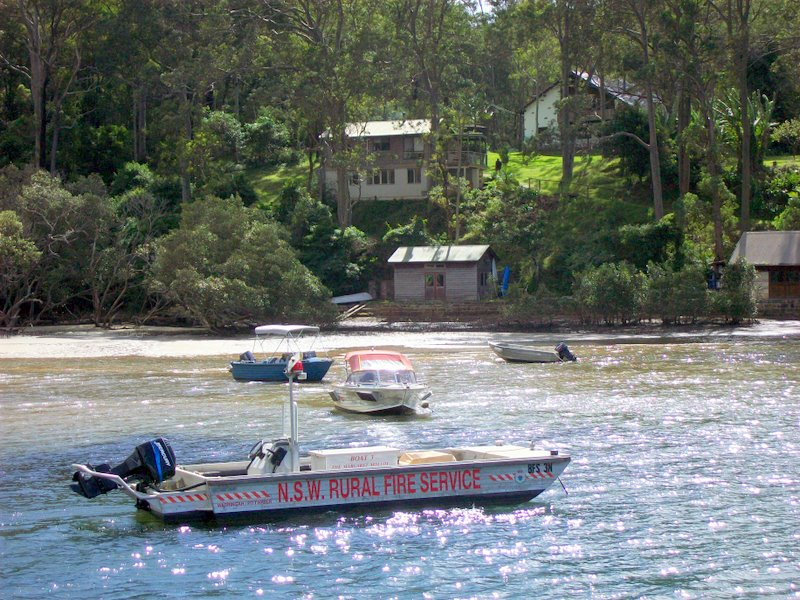 Elvina bay, boats and houses